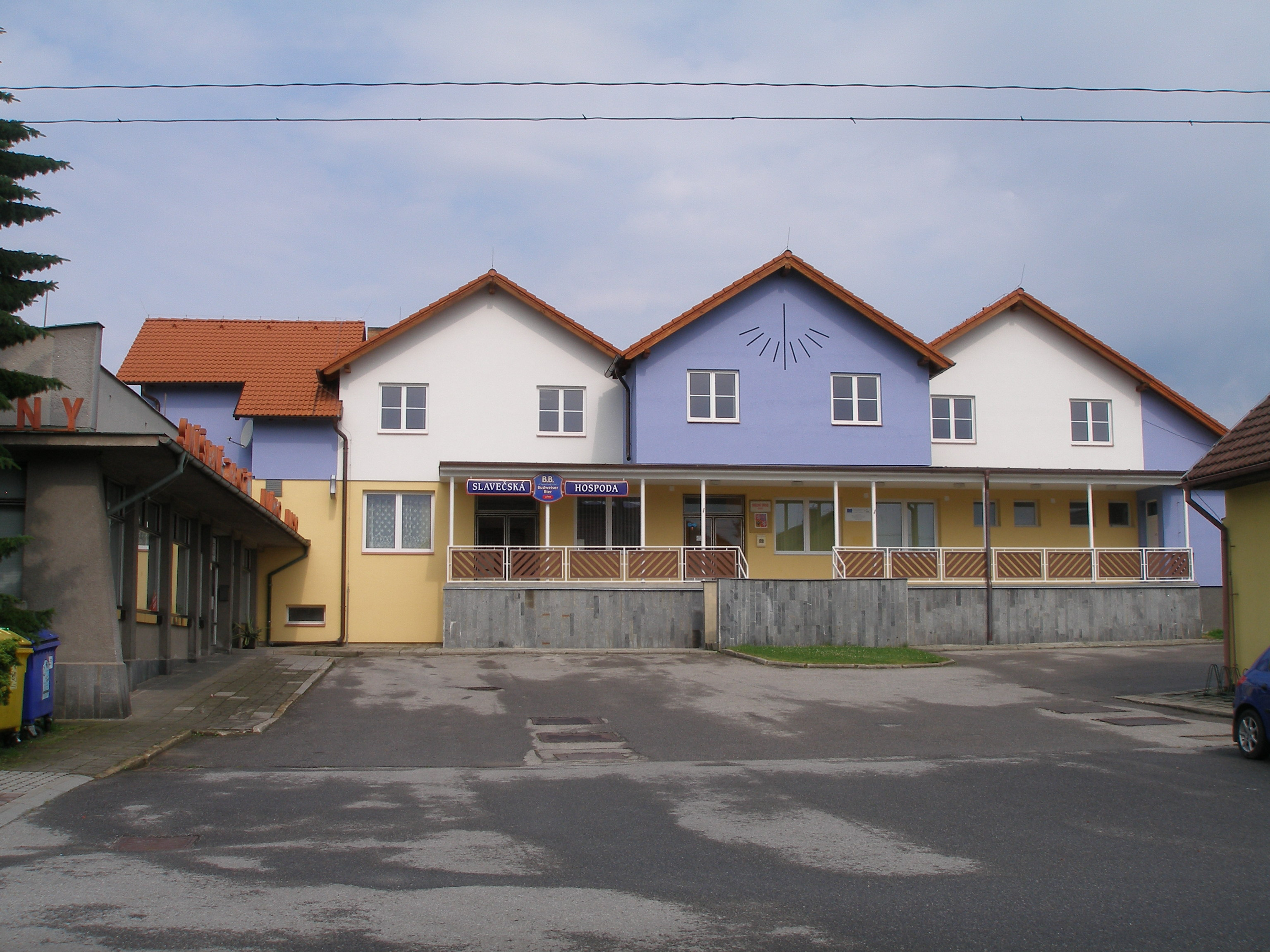 Slavče - the municipality (with the pub in the first floor)